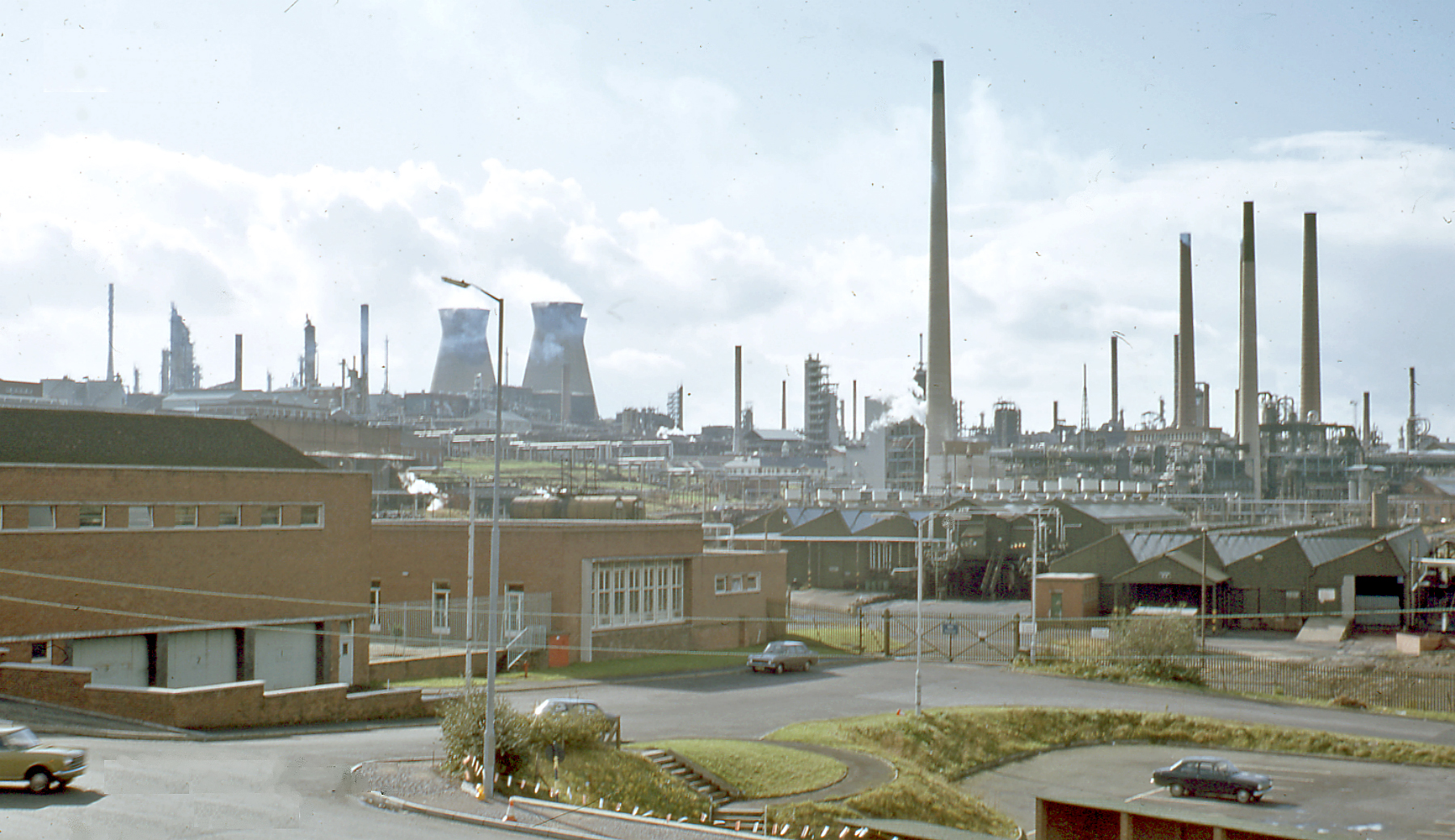 Llandarcy Oil Refinery, 1973 View SW, probably from near the main entrance to the Refinery from the B4290 near Skewen. All this ceased to exist after 1998